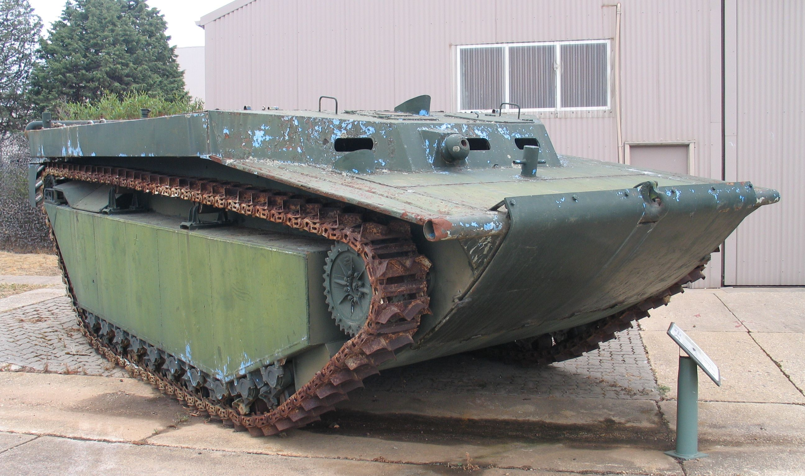 LVT 4 in Royal Australian Armoured Corps Tank Museum, Puckapunyal, Australia.